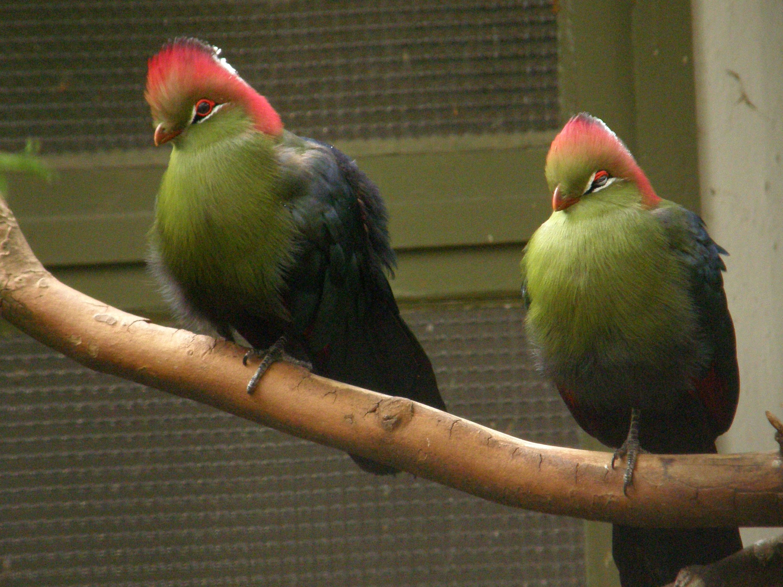 Tauraco fischeri